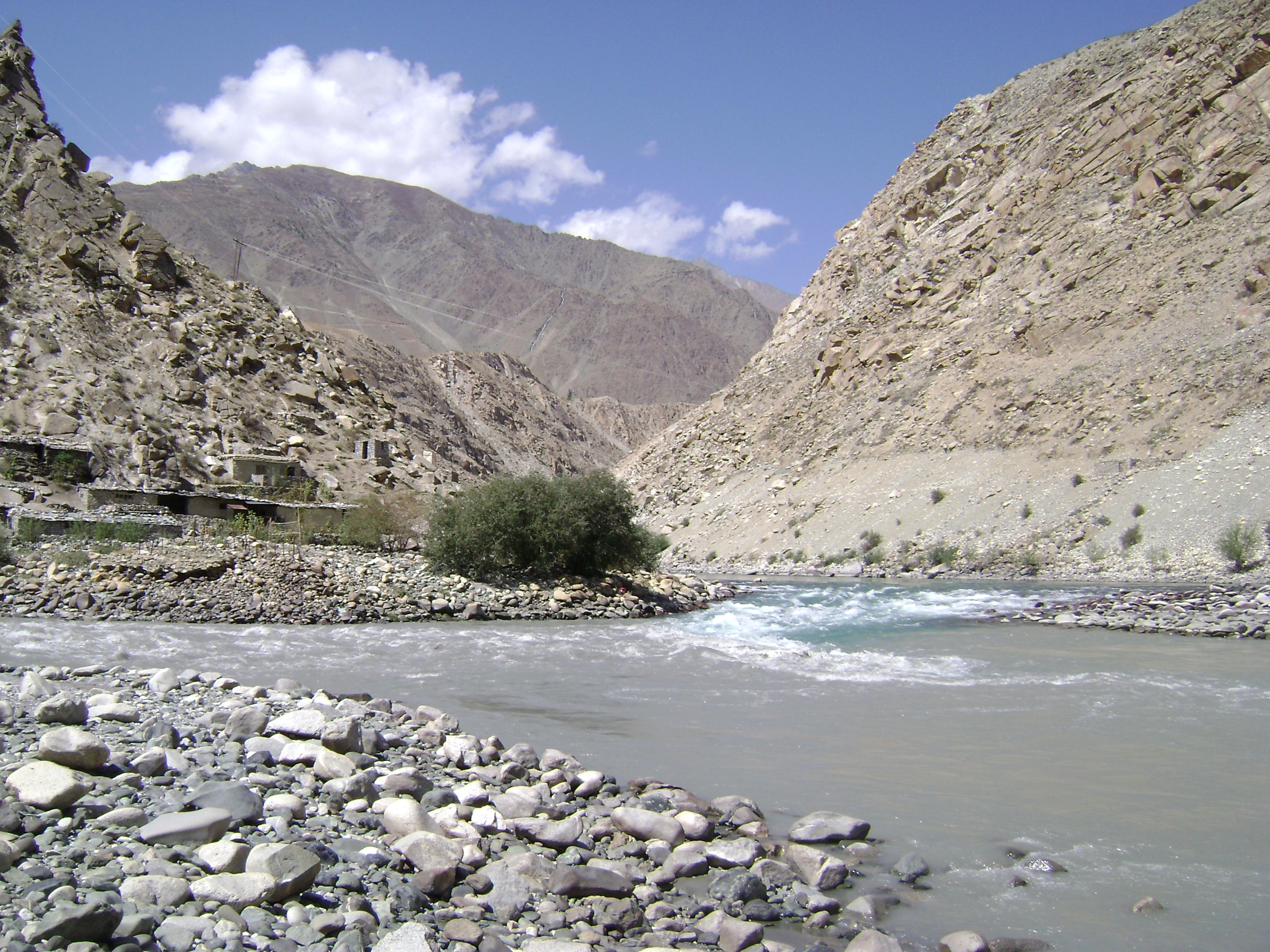 Picture taken at Dalunang, 15 km from Kargil